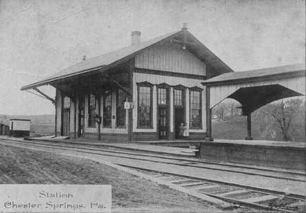 Pickering Valley Railroad, Chester Springs, Pennsylvania, station